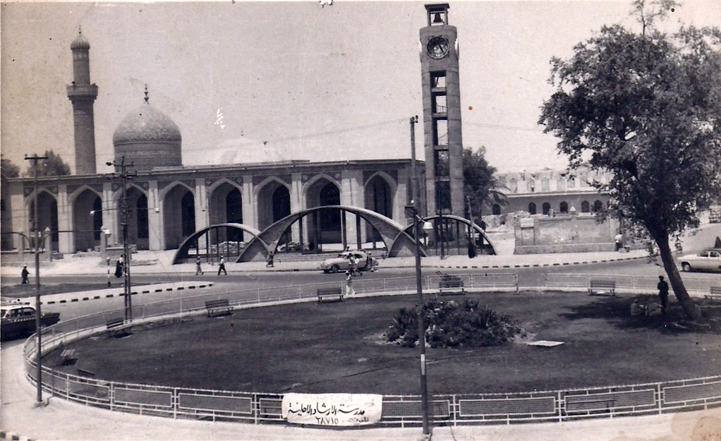 An outer view of Abu Hanifa Mosque in Adhamiyah, Baghdad, Iraq